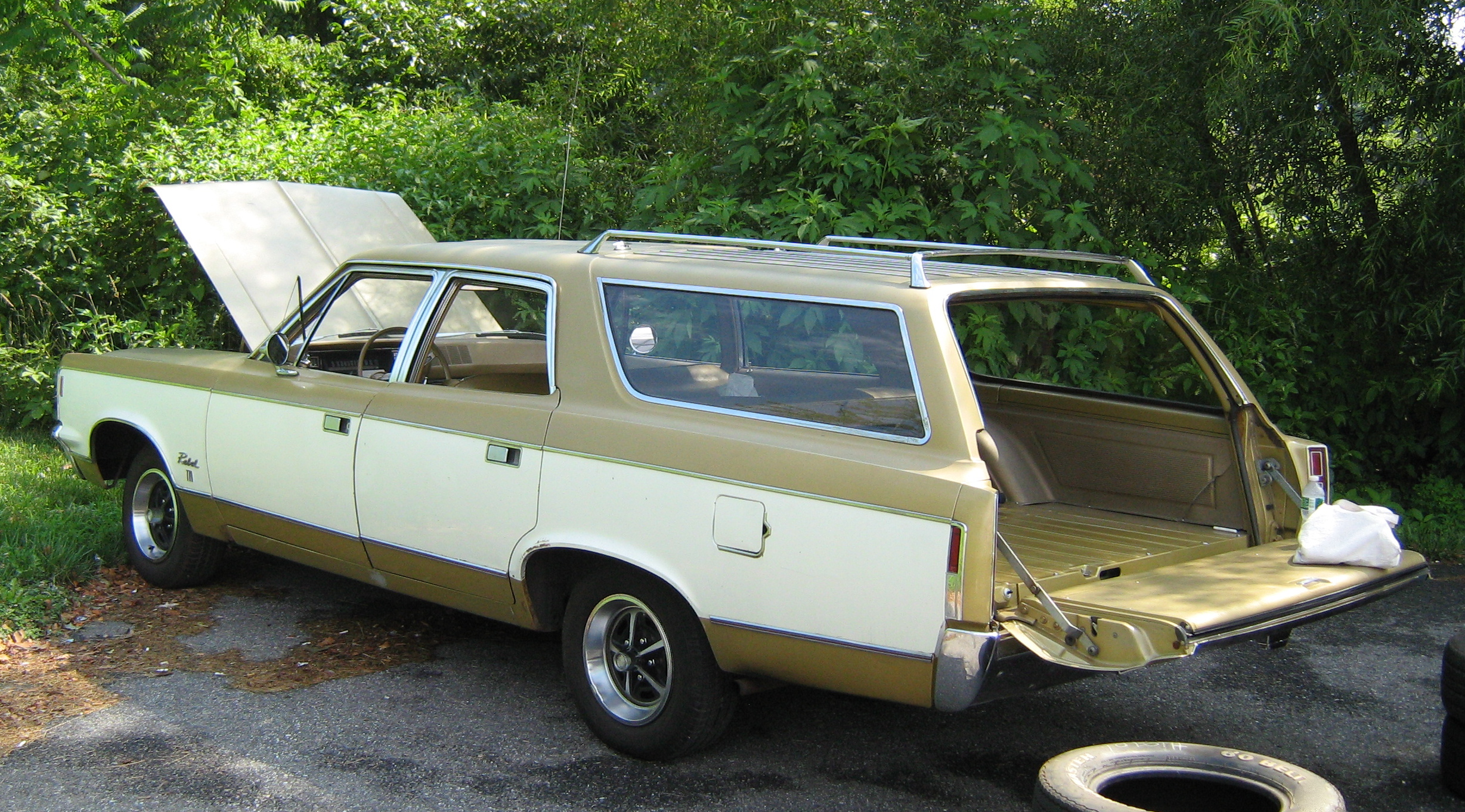 1968 Rambler Rebel 770, a mid-sized "Cross Country" station wagon by American Motors Corporation (AMC). It is painted "Scarab Gold" metallic (code - P52A) with the optional (two-tone) side panels in "Frost White" (code - P72A). Picture taken at the Cecil County Dragstrip in Maryland.